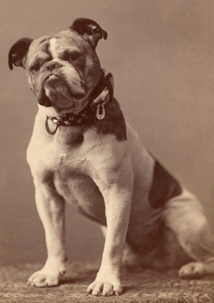 Photograph of the original "Handsome Dan," the first bulldog purchased from a local blacksmith by Yale College football tackle Andrew Graves in 1889. Handsome Dan became the first American university mascot. Image courtesy of the Yale University Manuscripts & Archives Digital Images Database, Yale University, New Haven, Connecticut. Retouched by MarmadukePercy.